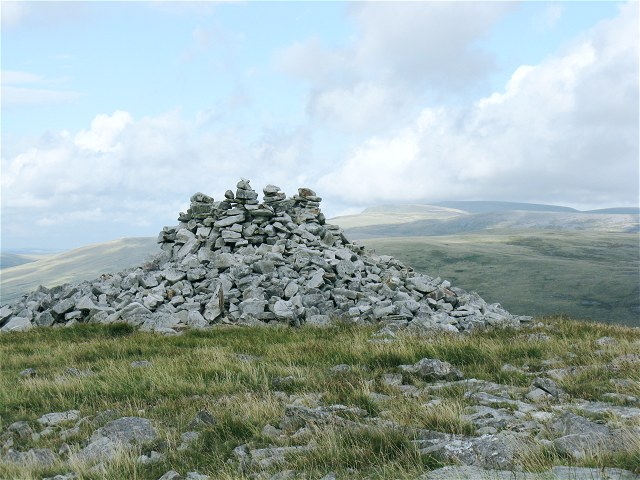 Carn Pen Rhiw-ddu A large cairn and quite near the road. It seems to have been remodelled recently, with a small castle-walled shelter on top instead of the usual simple pile of rocks.